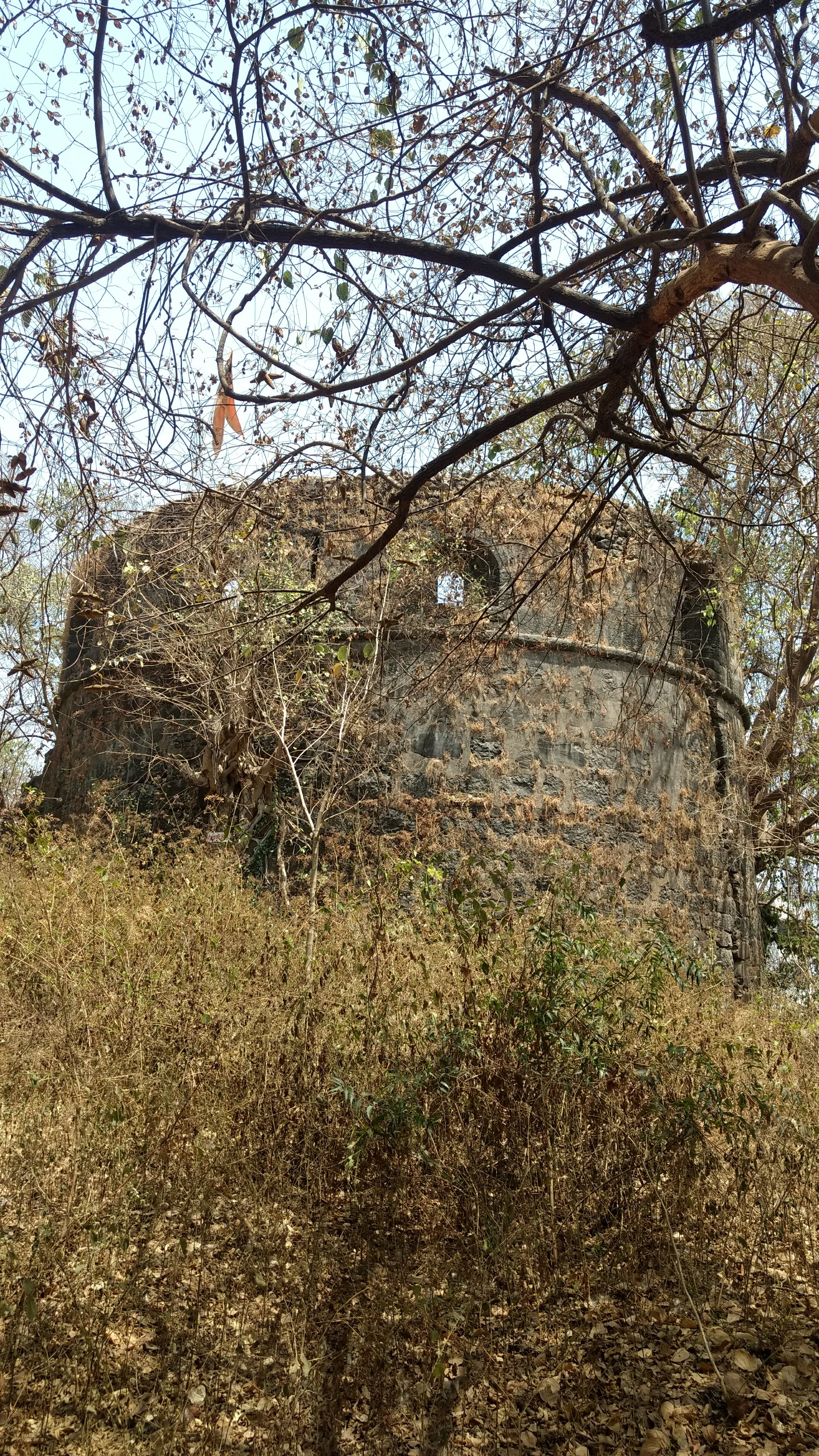 This is the watch tower of Belapur fort standing near the shores of CBD Belapur near NMMT office